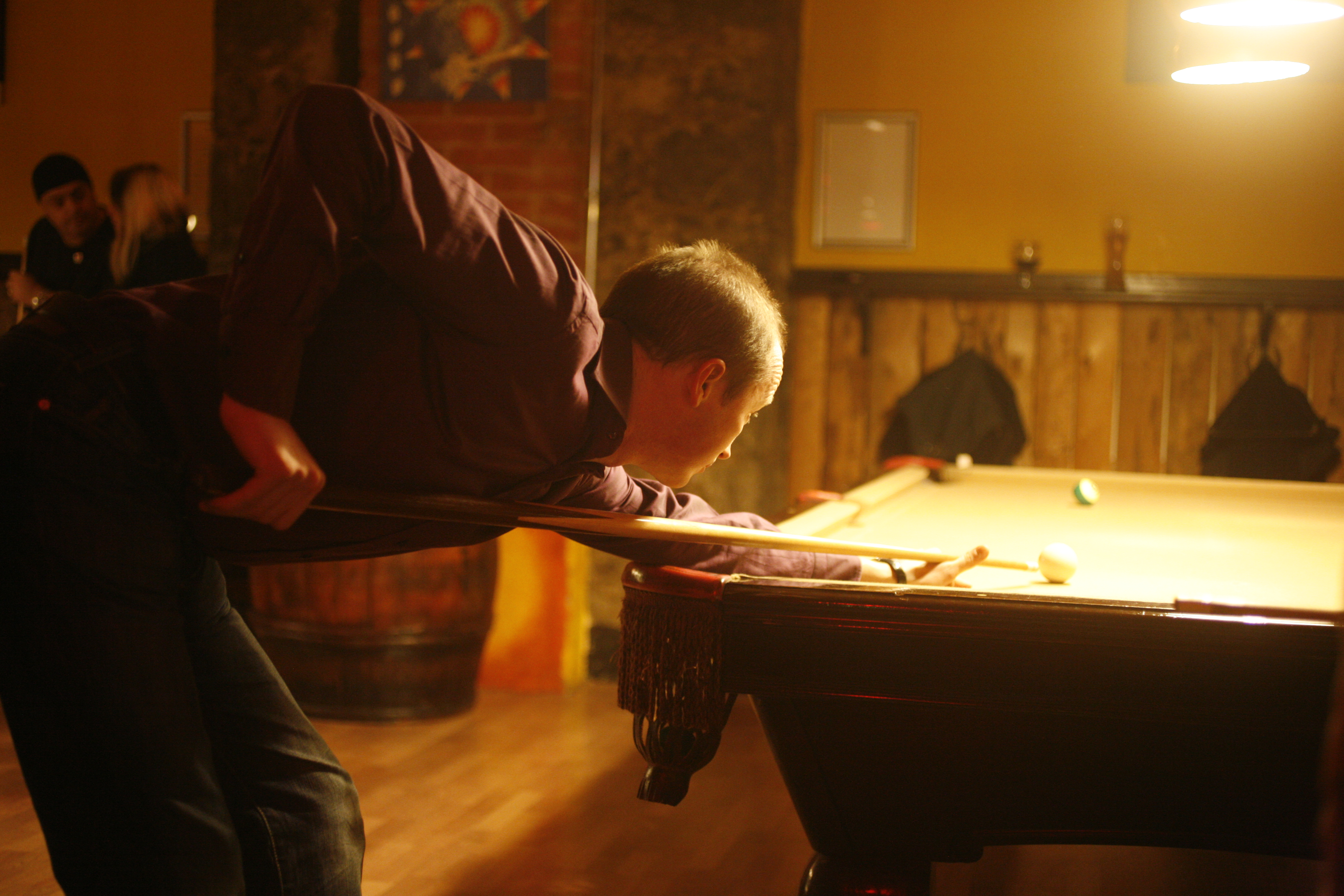 Billiards player